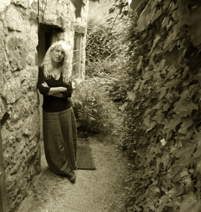 A photograph of author and editor Terri Windling